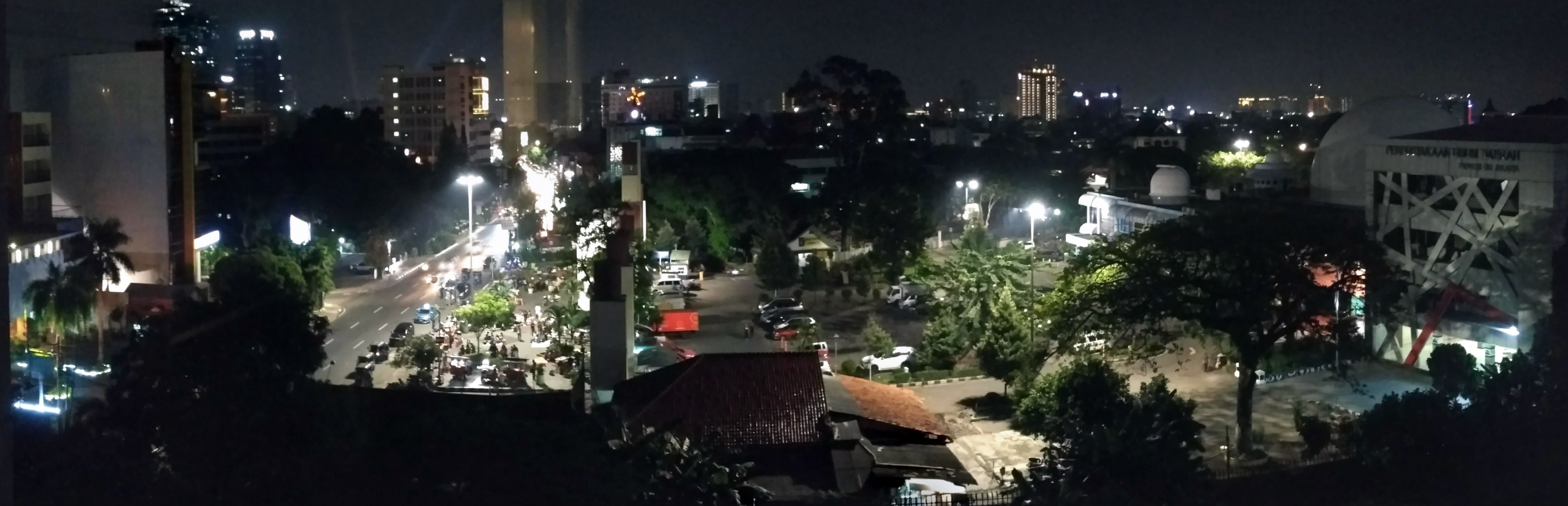 The Taman Ismail Marzuki in Jakarta, as viewed from the Hotel Ibis Budget in Cikini.